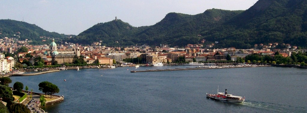 Como city (Italy)